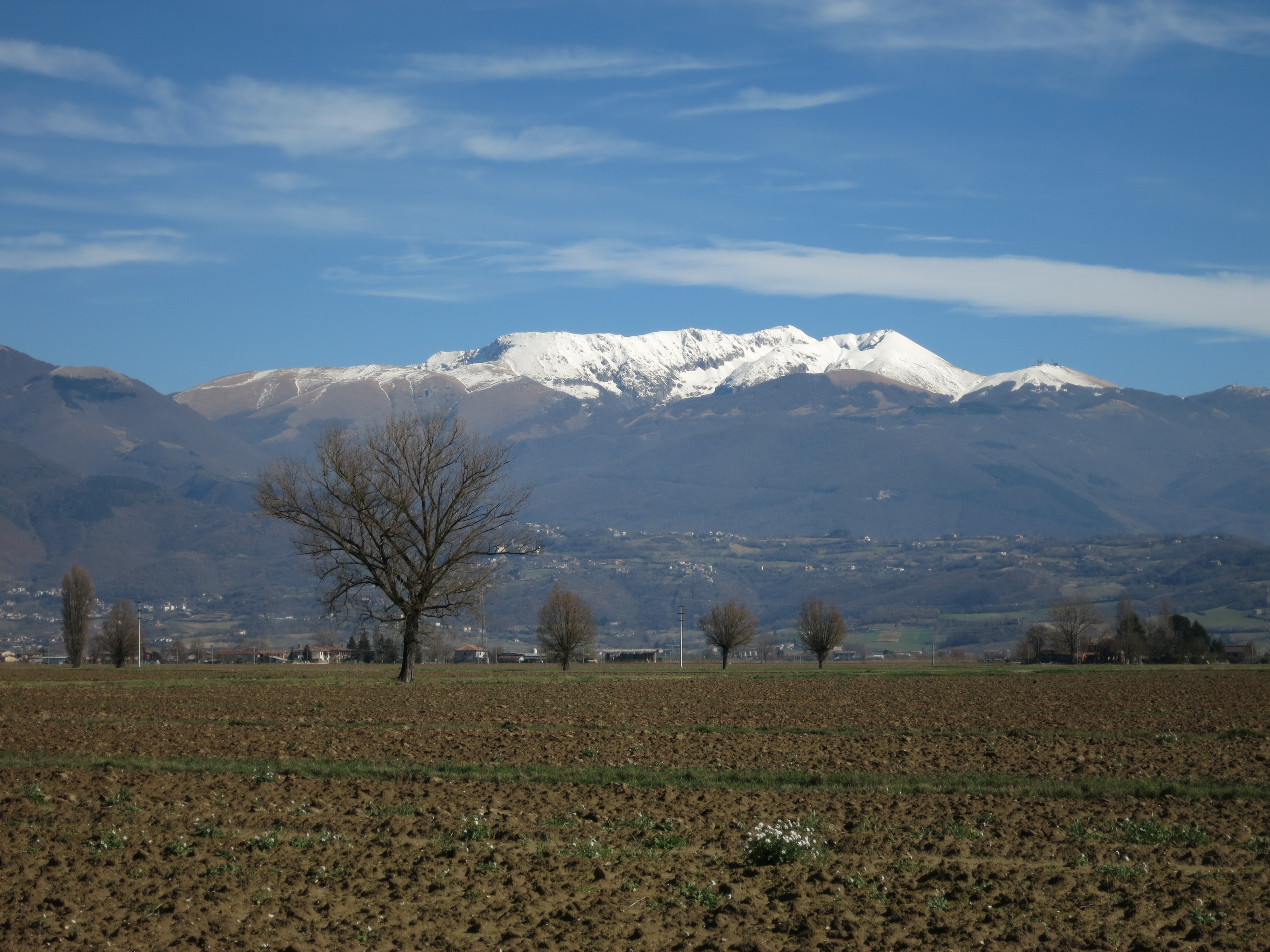 Mount Terminillo as seen from Ciclovia della Conca Reatina bikeway - Rieti (Lazio, Italy)